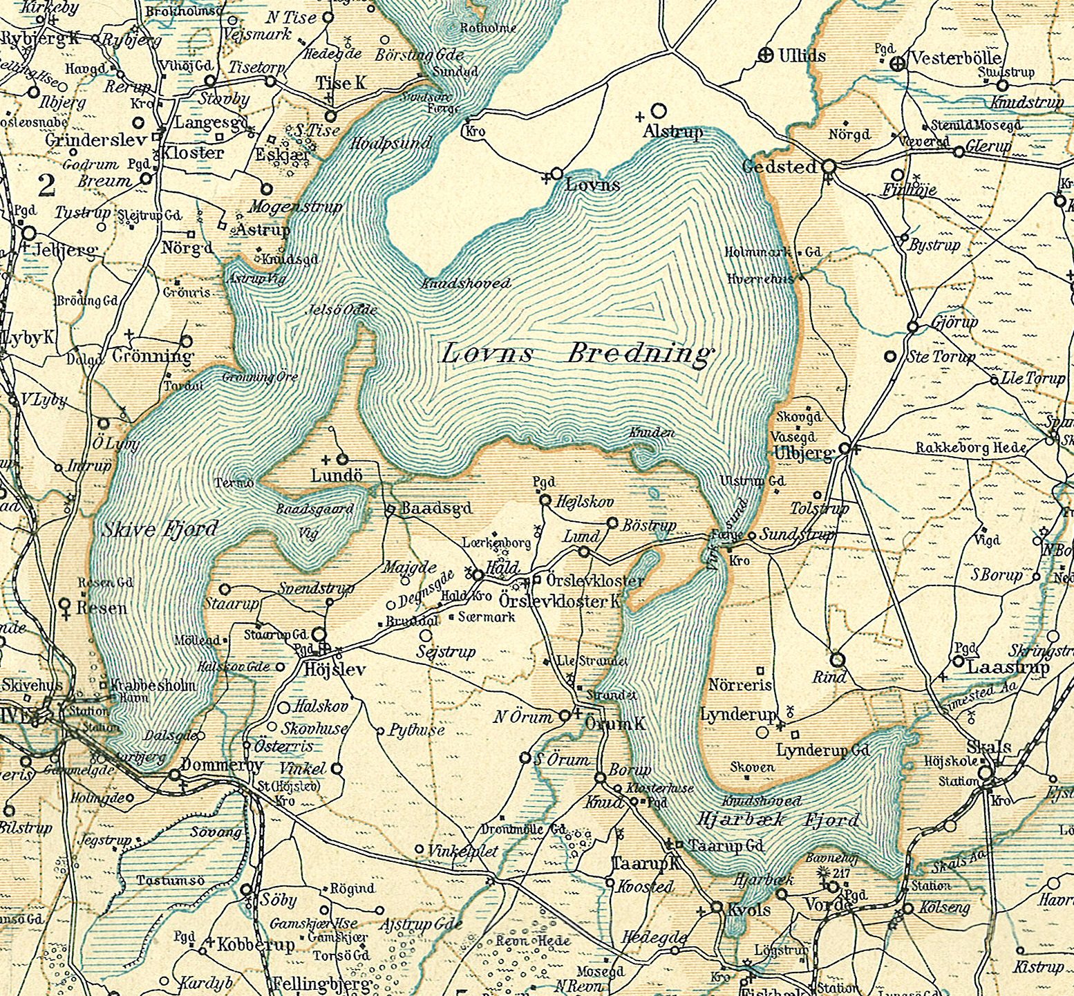 Map of Louns Bredning, Hjarbæk- og Skive Fjord in the northwestern part of Viborg County in Denmark